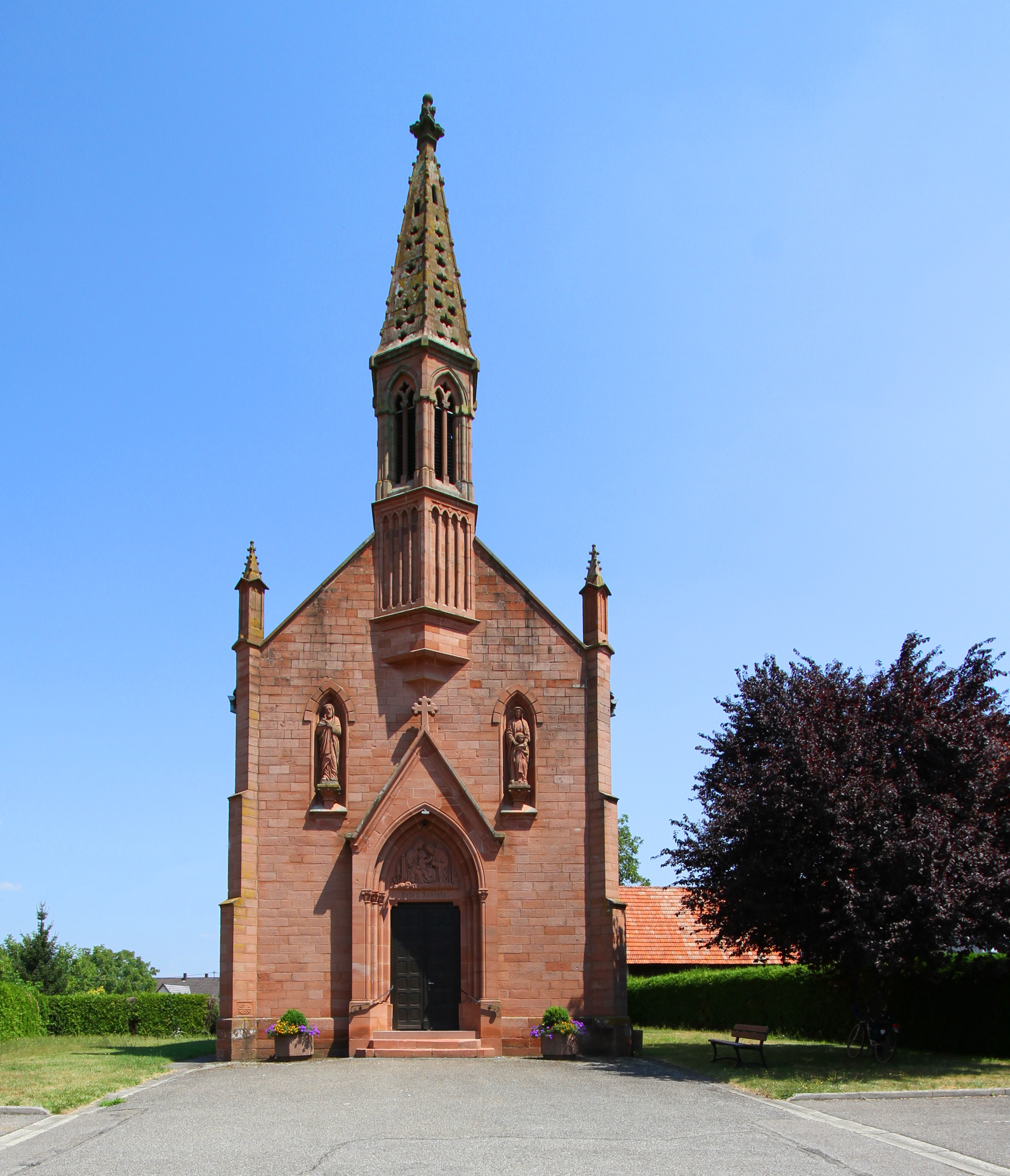 Church of St. Joseph in Leiterswiller.